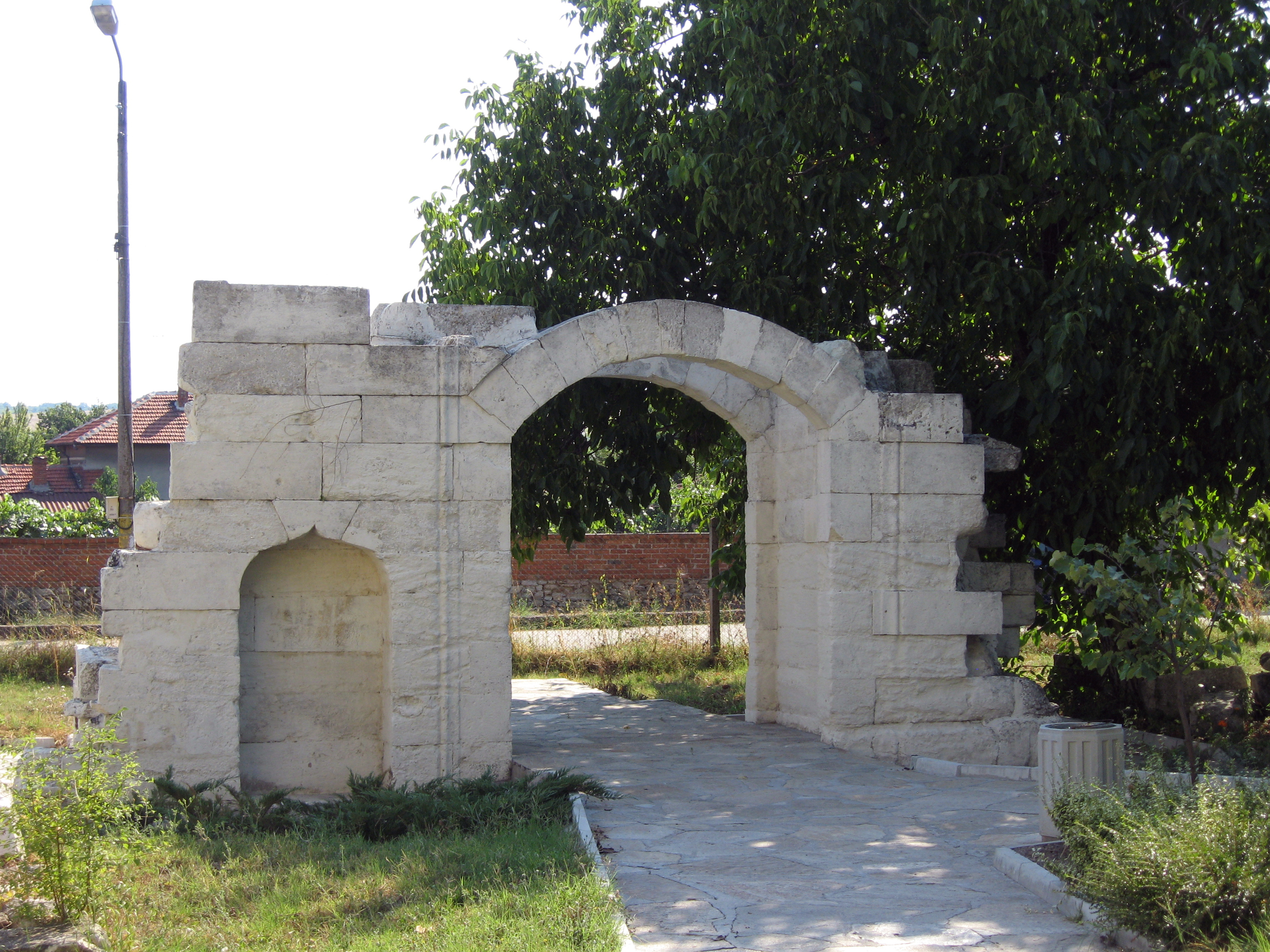 Church of the Assumption, Uzundzhovo, Bulgaria